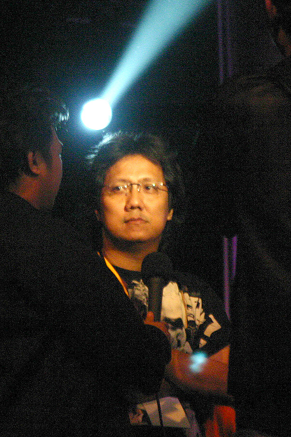 Krisdayanti Concert in Suntec, Singapore, 26 June 2004